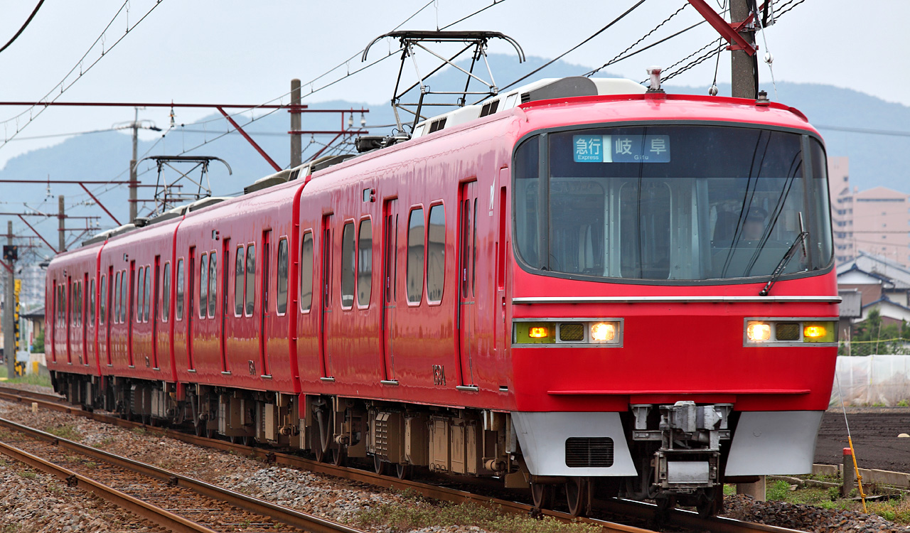 The Meitetsu 1380 series EMU set 1384 between Unumajuku and Haba stations